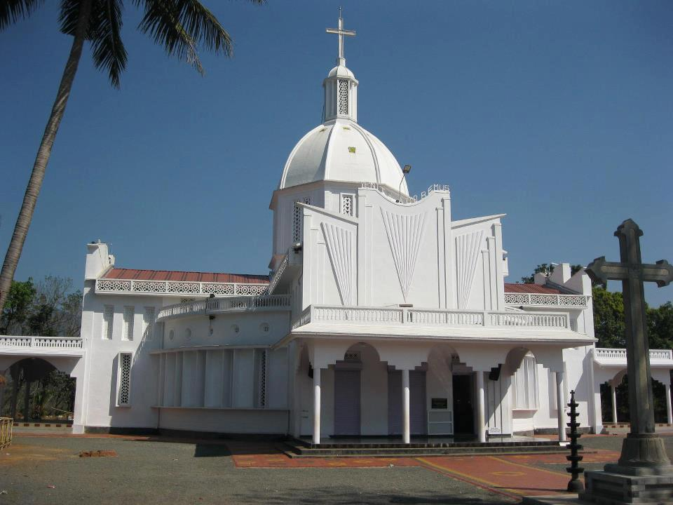 Photo of St. Mary'sForane Church Edoor